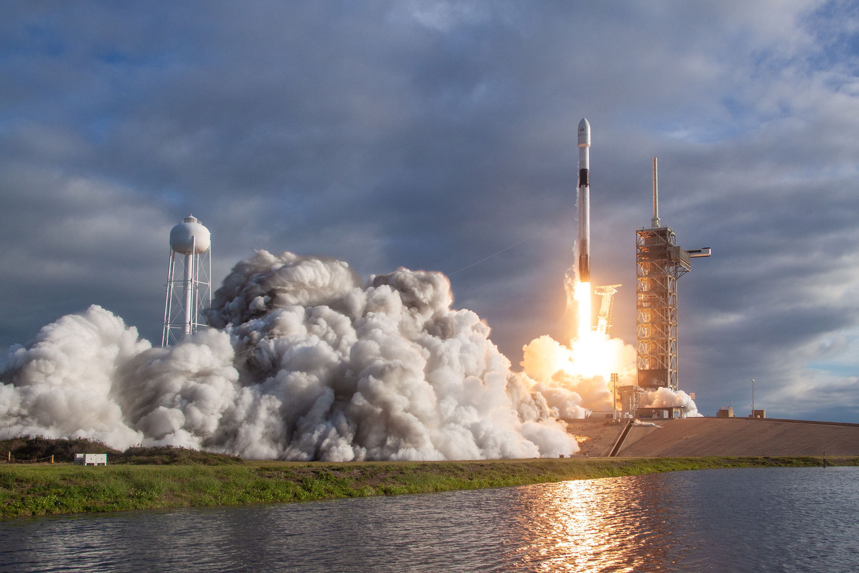 Es'hail-2 Mission